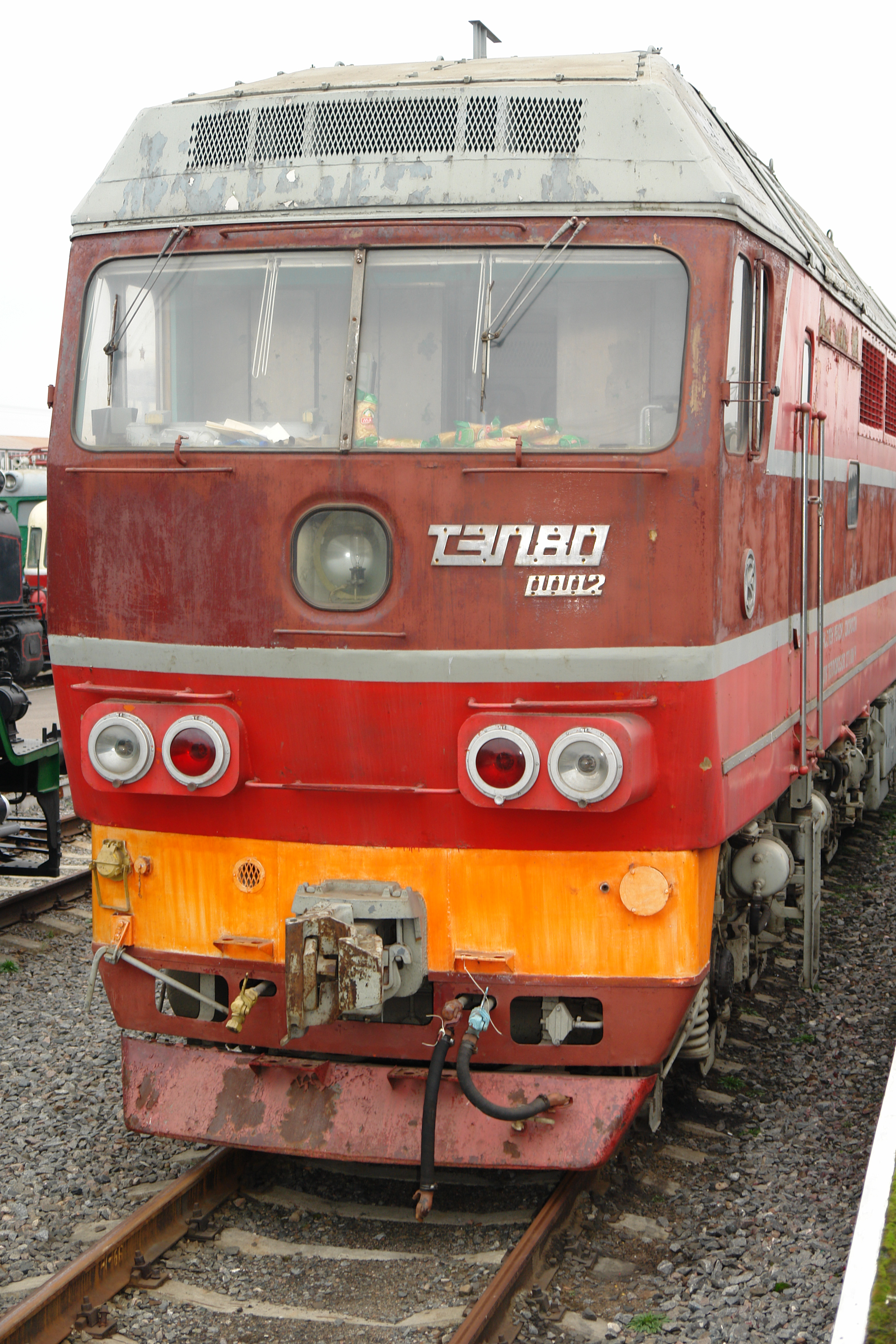 Locomotive TEP80 002 (no additional information avaible)